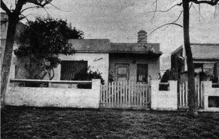 Casa de Yrigoyen 4519, Florida, Gran Buenos Aires. Allí fueron secuestrados las personas que fueron fusiladas clandestinamente el 10 de junio de 1956 en los hechos conocidos como "Operación Masacre".